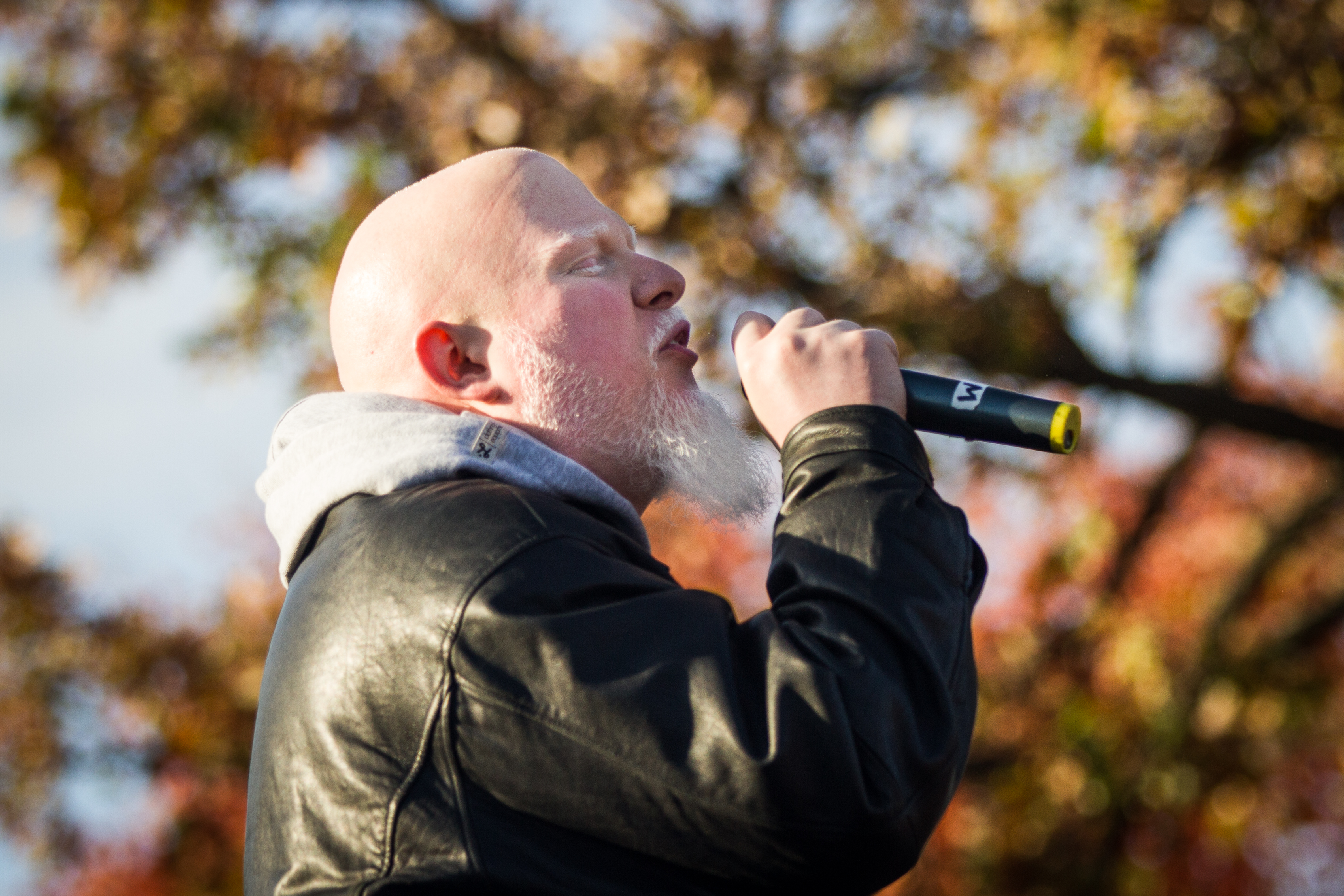 Day of Dignity 2012 — Brother Ali 8065293995 o